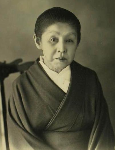 Ohkuma Shgenobu's wife, Ayako